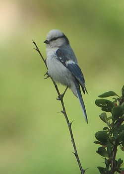 Cyanistes cyanus, Azure tit from Kyrgyzstan.